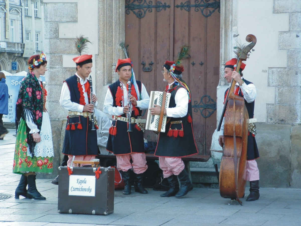 Krakowiacy